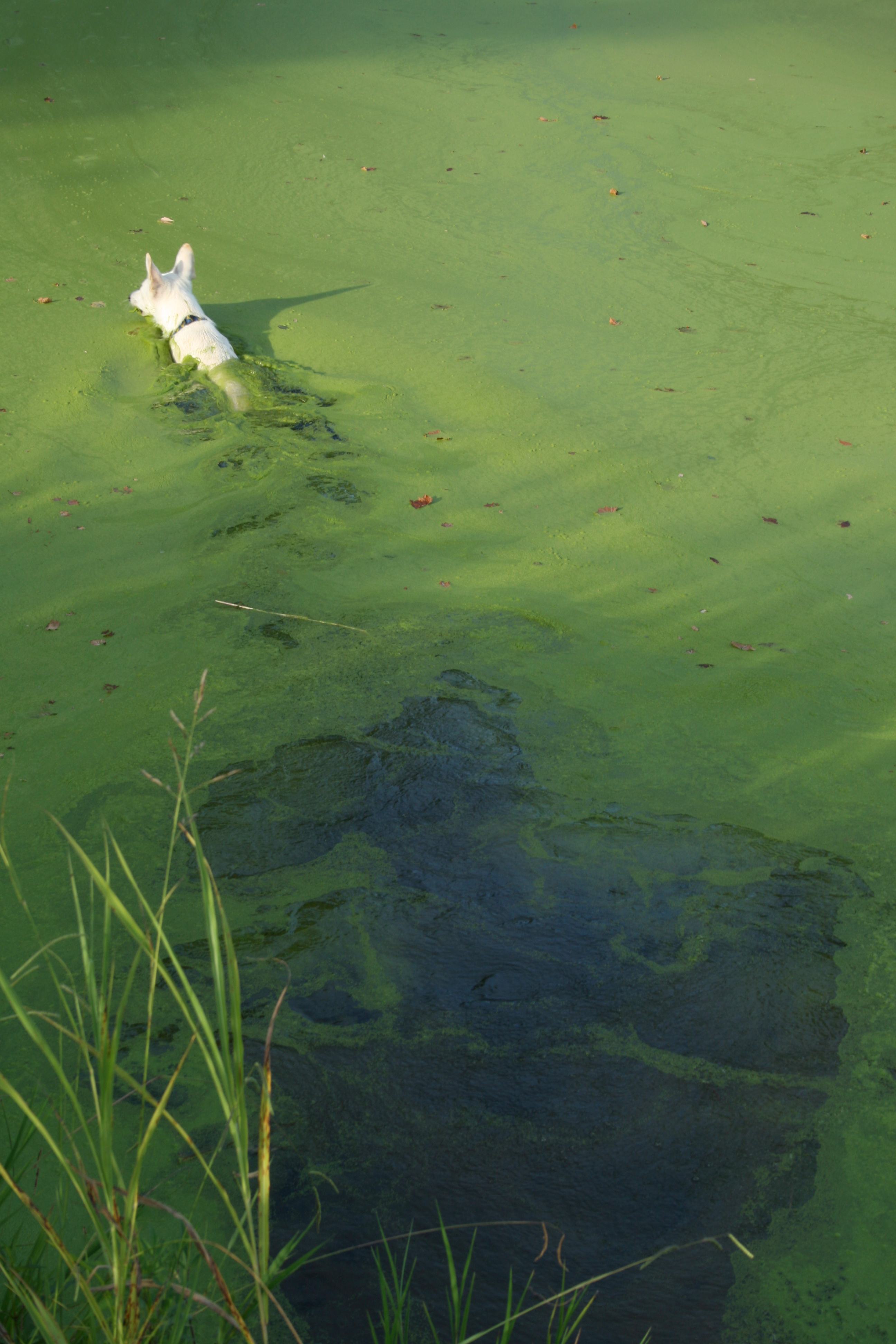 A young White German Shepherd dog swimming in the blooming algae of a pond in Swepsonville, North Carolina.